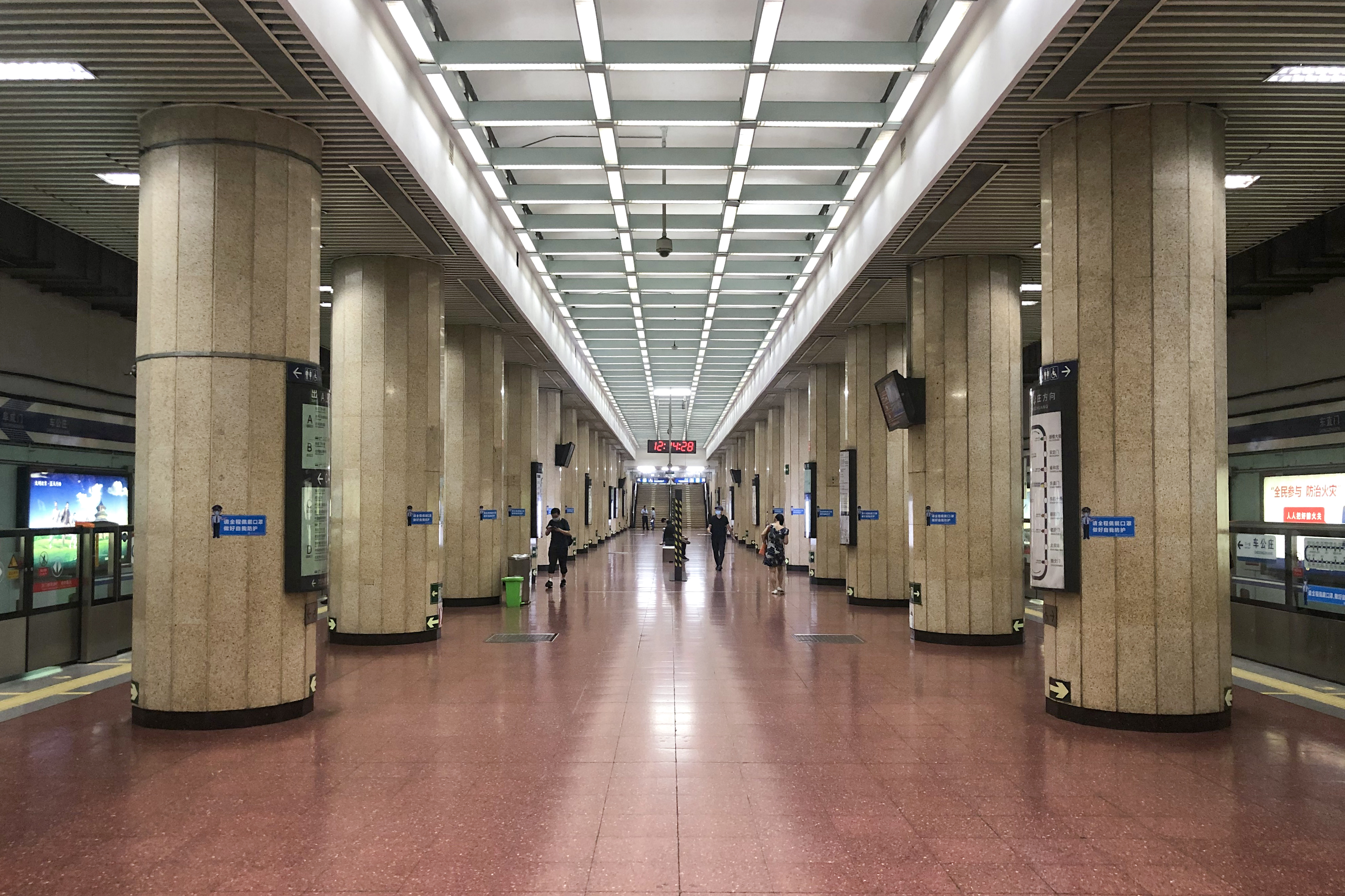 High ceiling.